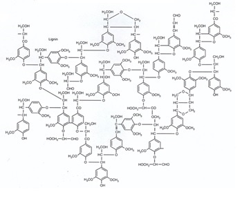 Figure 2. Schematic representation of the structure of lignin